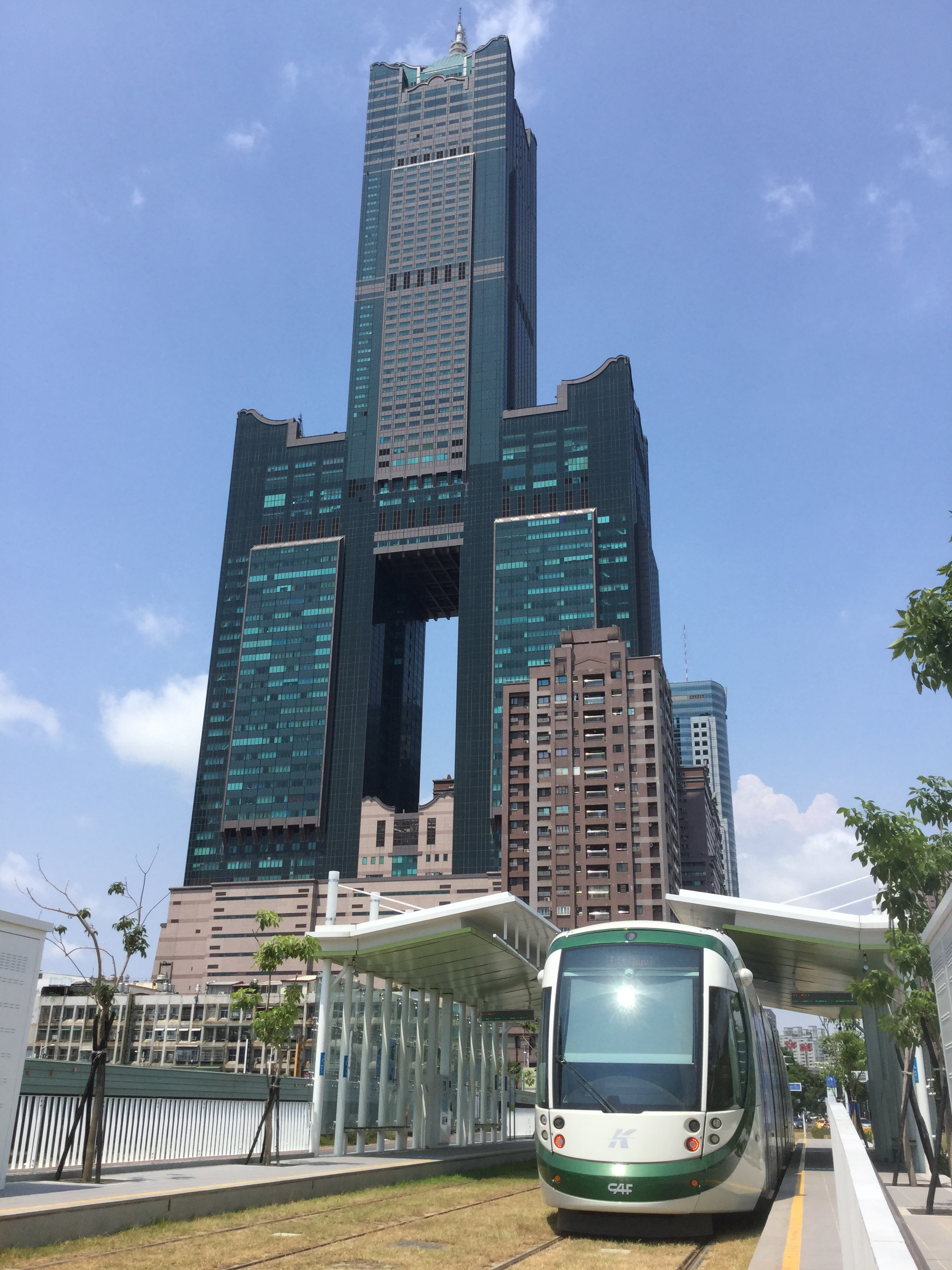 Kaohsiung LRT C8 Station and 85 Sky Tower